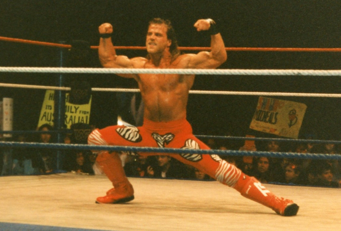 Shawn Michaels performing his entrance pose at the Royal Albert Hall, London